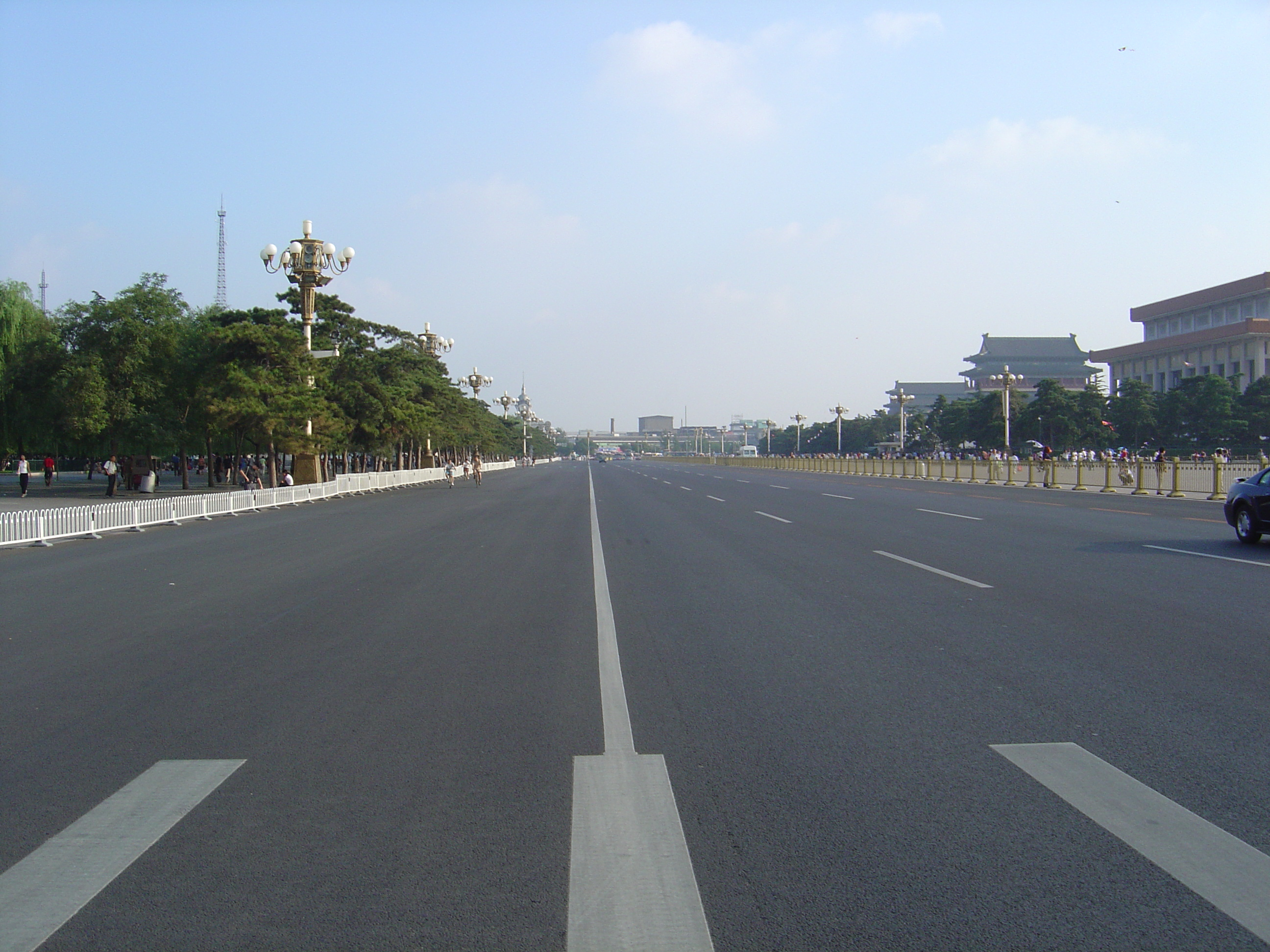 A Street with no cars in Beijing!